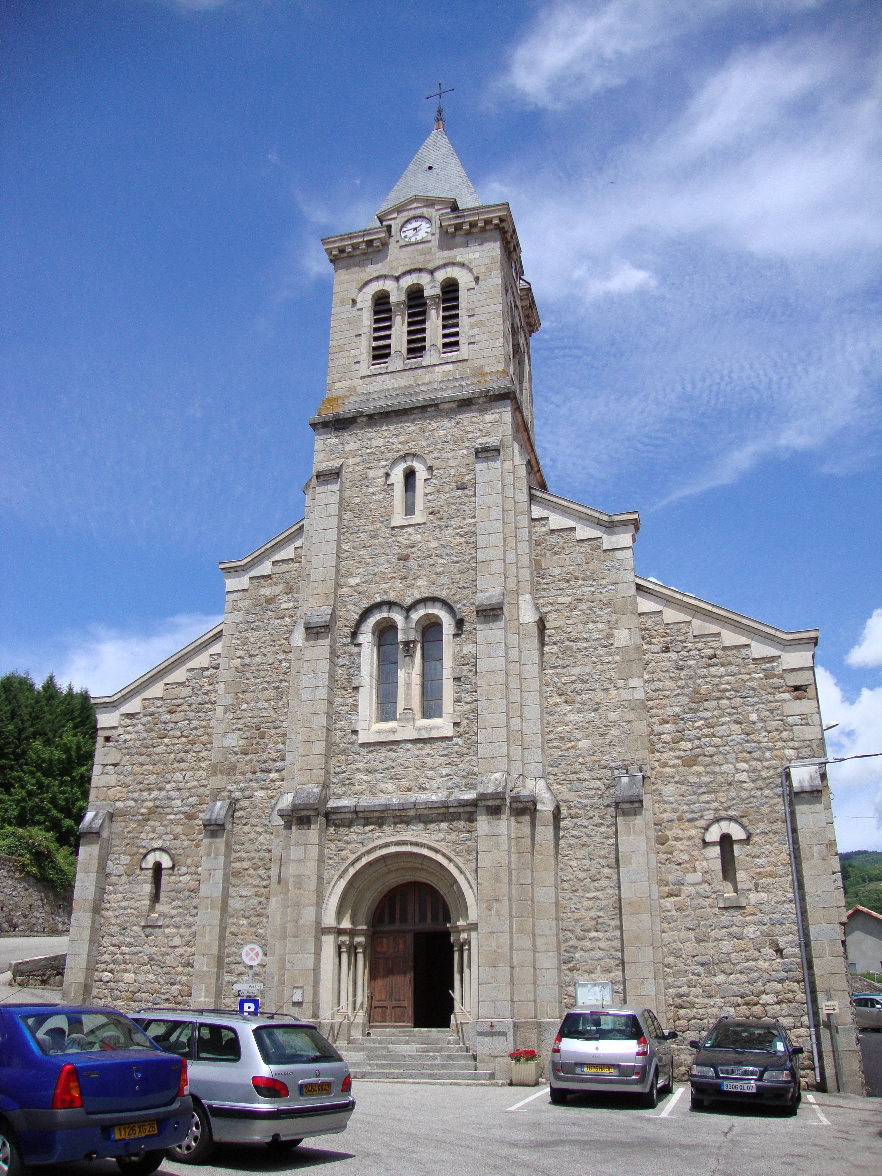 St.Martin-de-Valamas (Ardèche) church